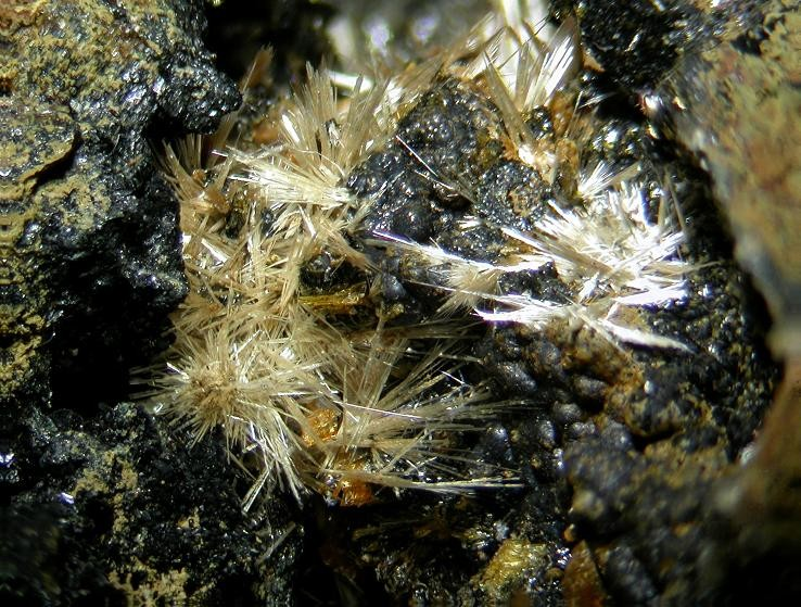 Strunzite, Rockbridgeite, Laueite Locality: Hagendorf South Pegmatite (Cornelia Mine; Hagendorf South Open Cut), Hagendorf, Waidhaus, Vohenstrauß, Oberpfälzer Wald, Upper Palatinate, Bavaria, Germany (Locality at ) White acicular xls of Strunzite together with some orange Laueite xls and a black Rockbridgeite crust. Field of view 8 mm. Depth of field is achieved with CombineZM. Specimen and photo Leon Hupperichs.